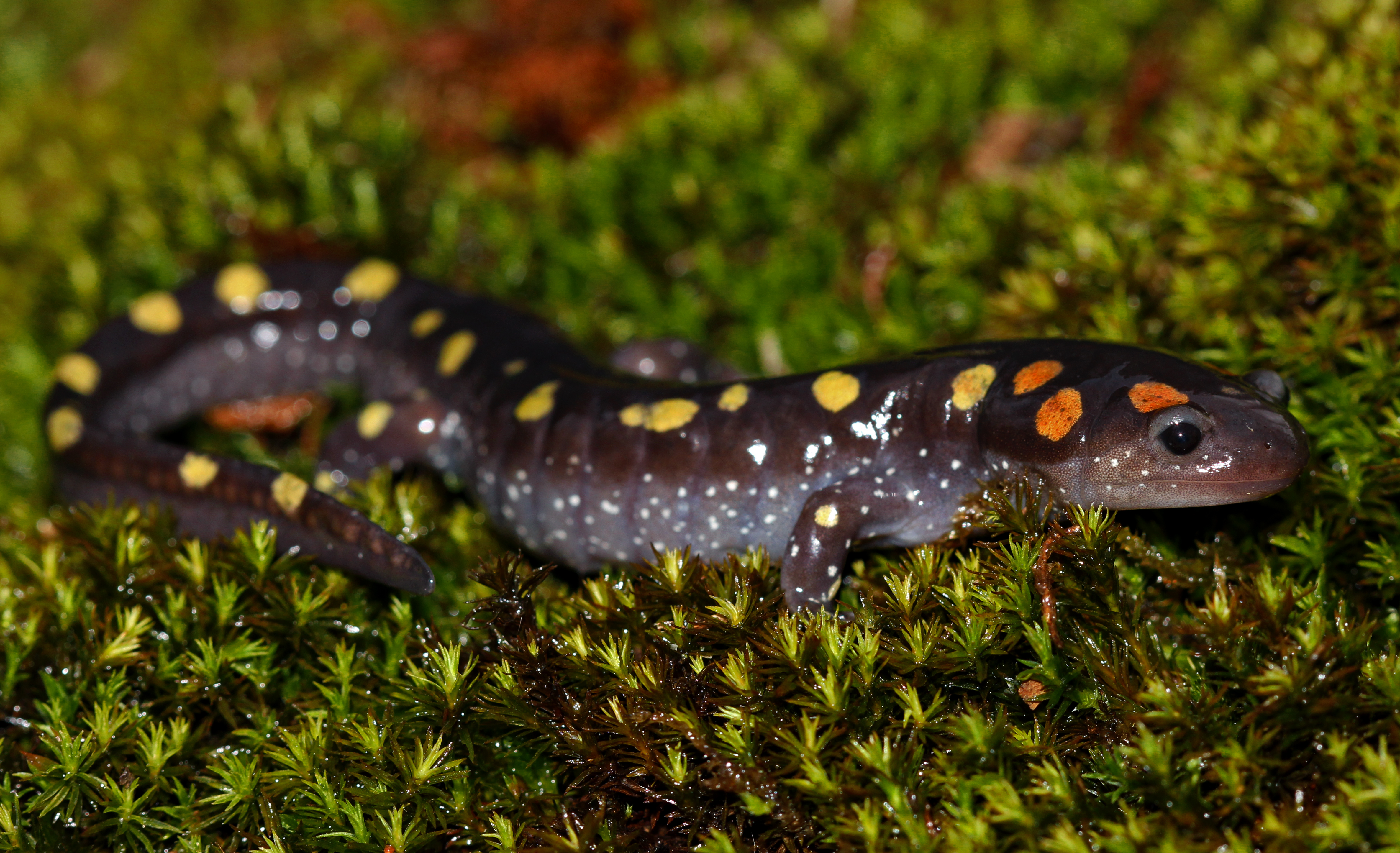 February 25th, 2018 High of 54 degrees Fahrenheit Mostly sunny Wayne County, Missouri